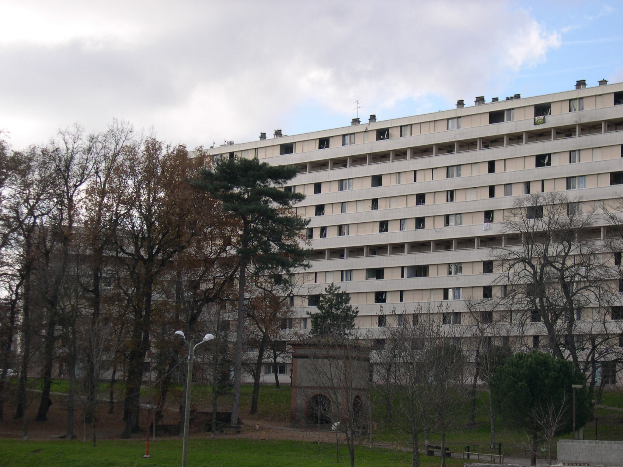 Building in Bellefontaine district in Toulouse.